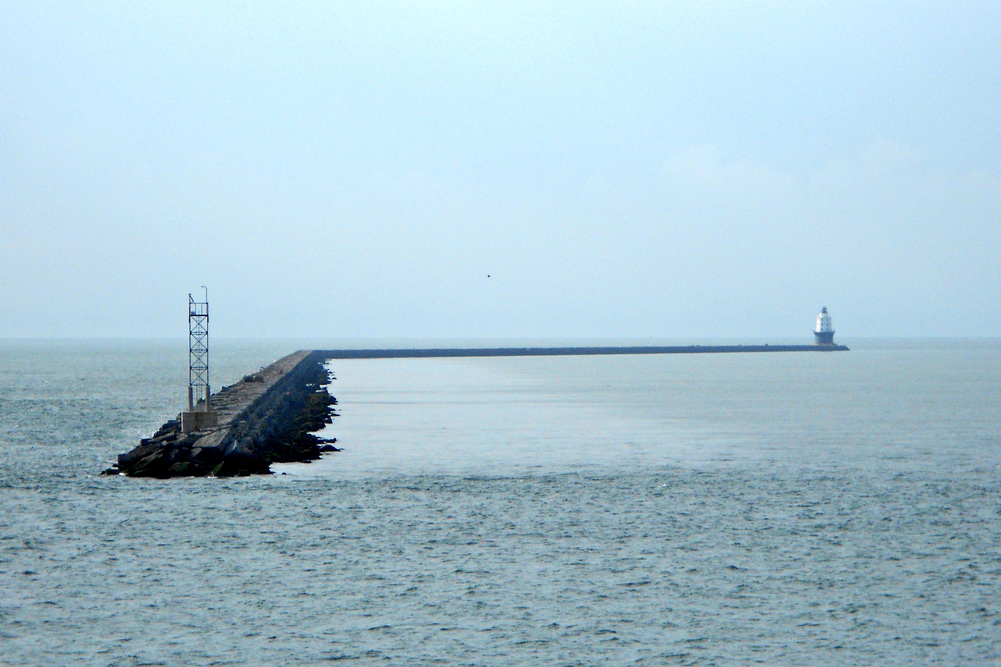 Outer Harbor in Lewes, Delaware on the NRHP